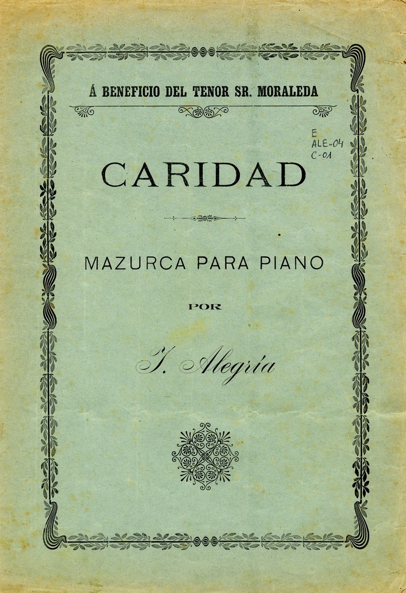 "Caridad" Isidro Alegria